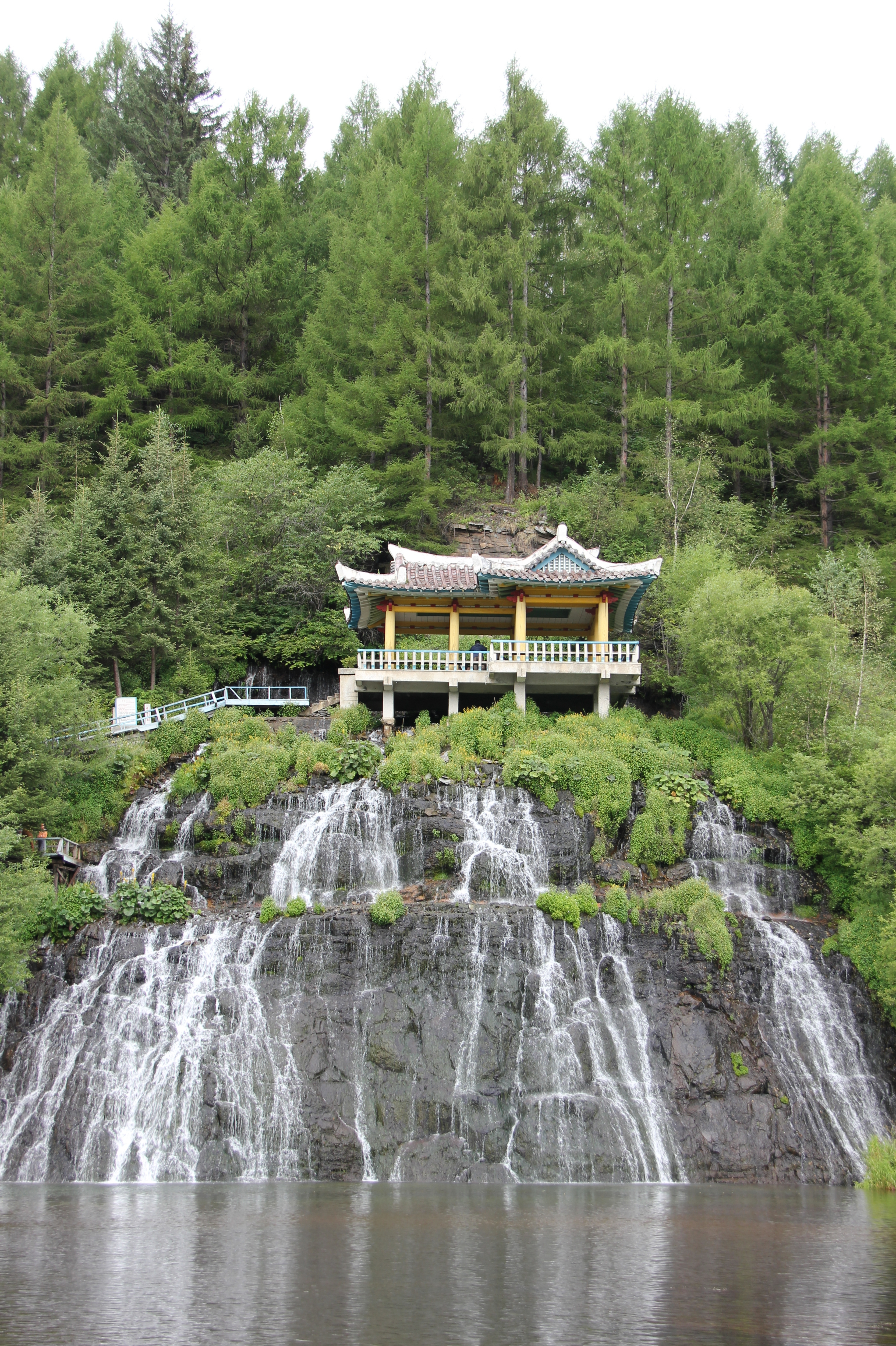 Rimyongsu Waterfalls, North Korea.